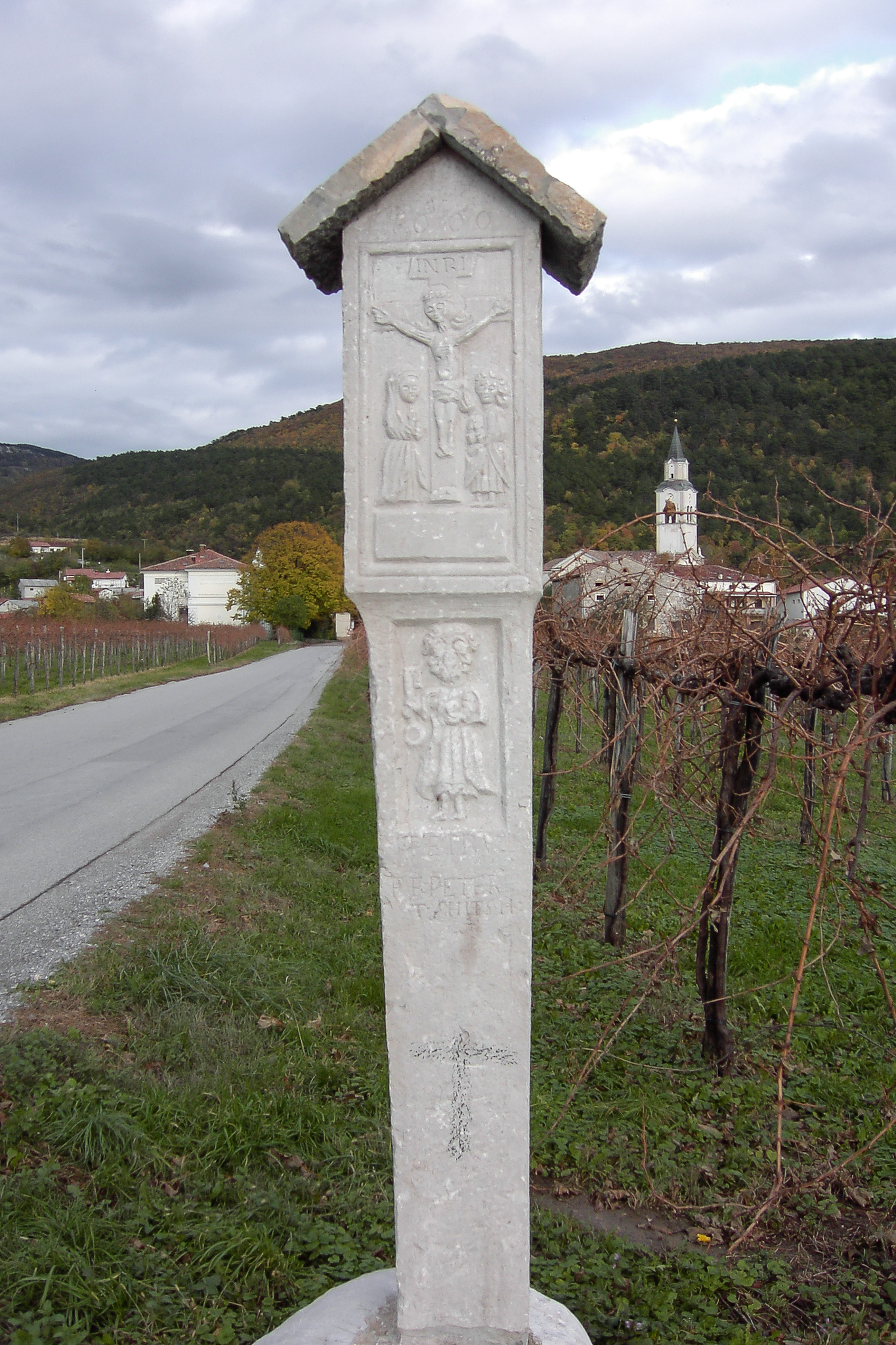 Petrov pil near Vrhpolje